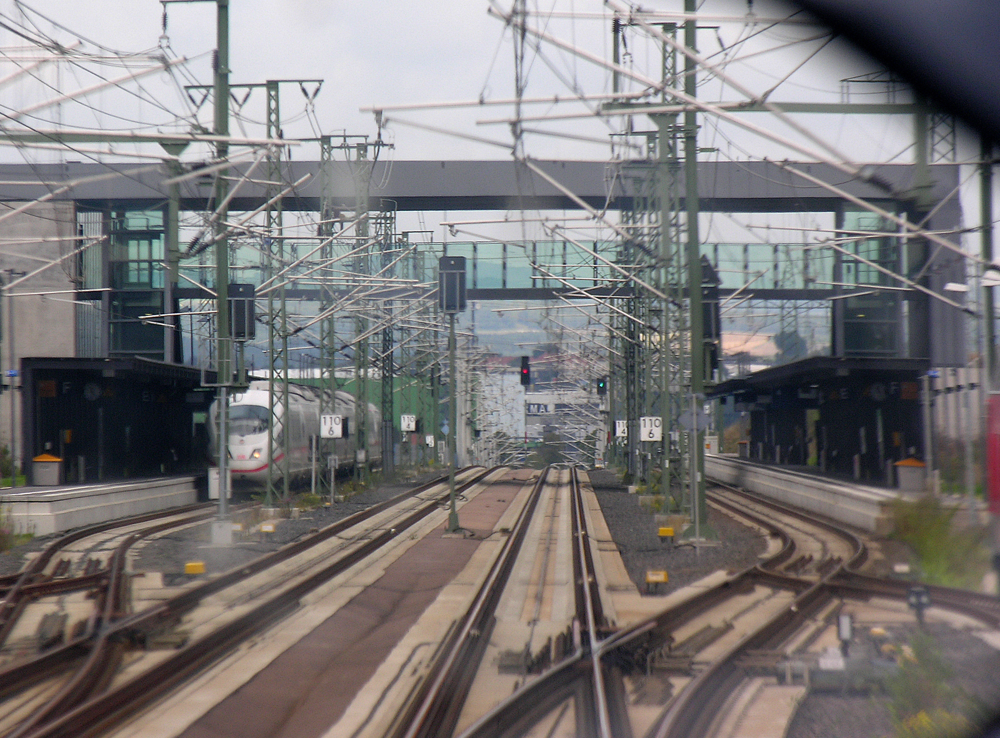 Driver's cabin view on an ICE train just passing through Limburg Süd railway station.